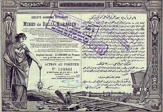 S.A. Ottomane des Mines de Balia-Karaïdin (1920)